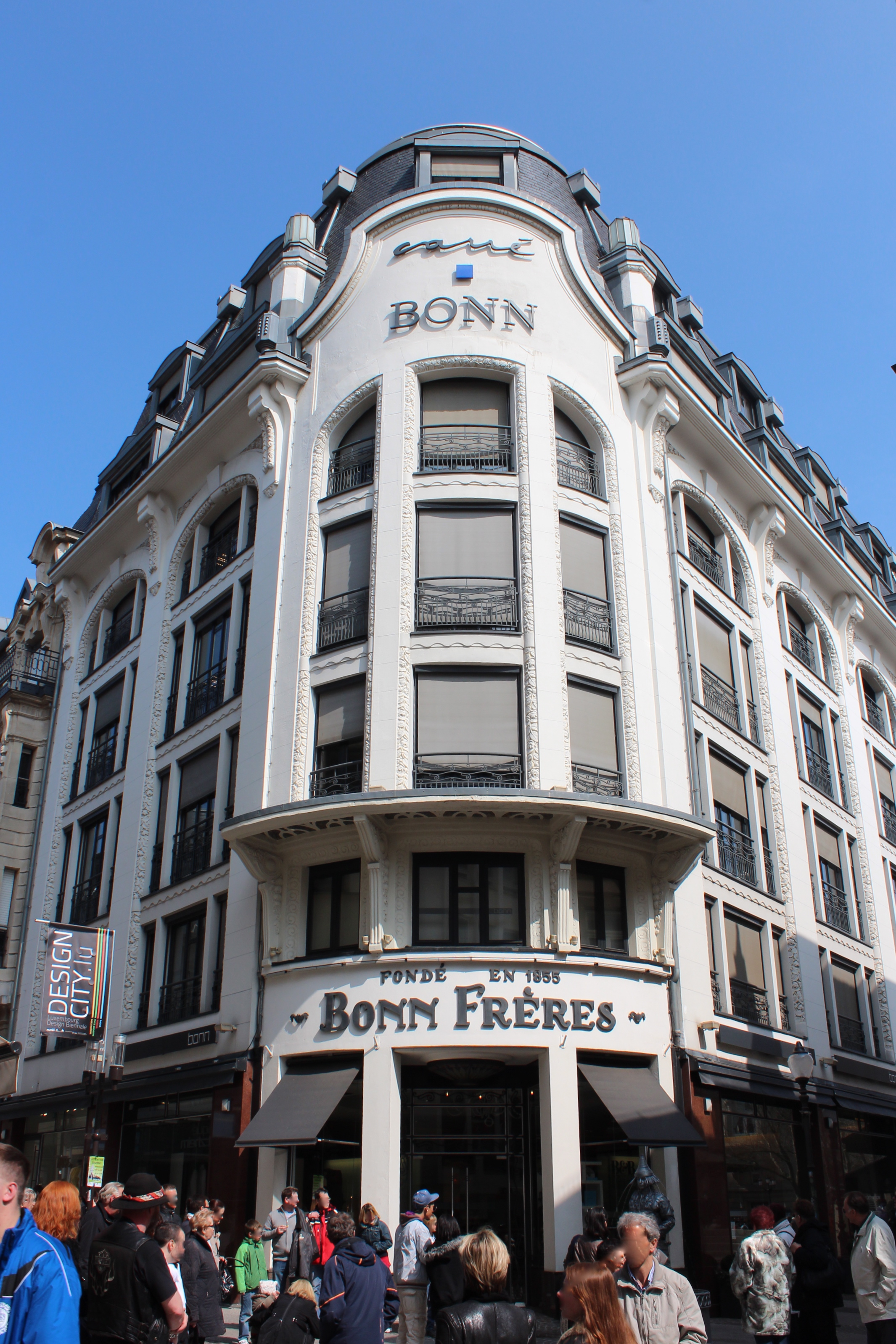 Palais du Mobilier Bonn Frères, an Art-deco building in Luxembourg City; Architect: Léon Bouvart (1883-1933)